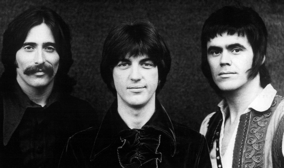 Publicity photo of the music group Three Dog Night. From left: Chuck Negron, Cory Wells, Danny Hutton.